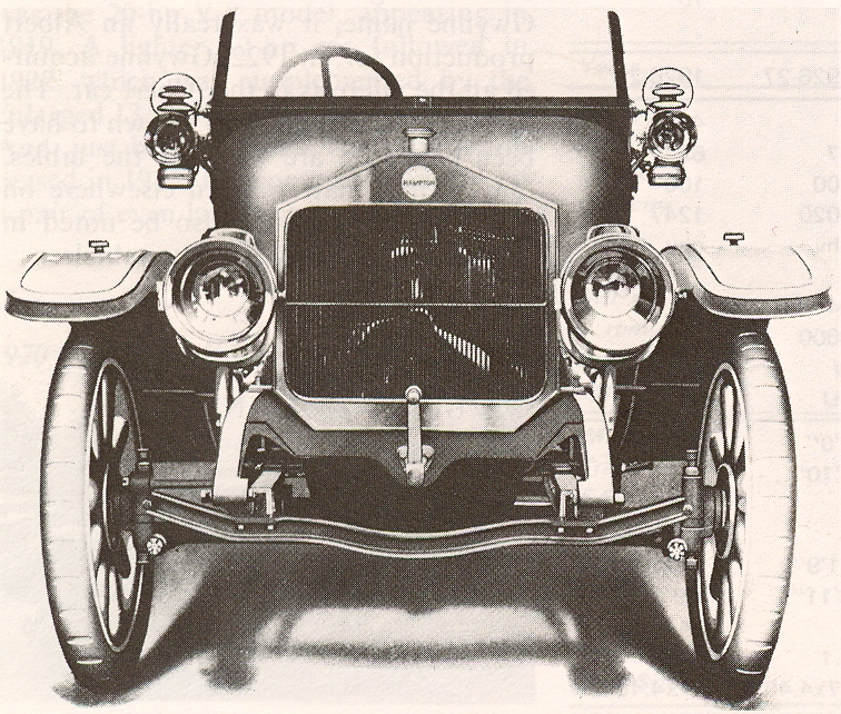 1914 Hampton